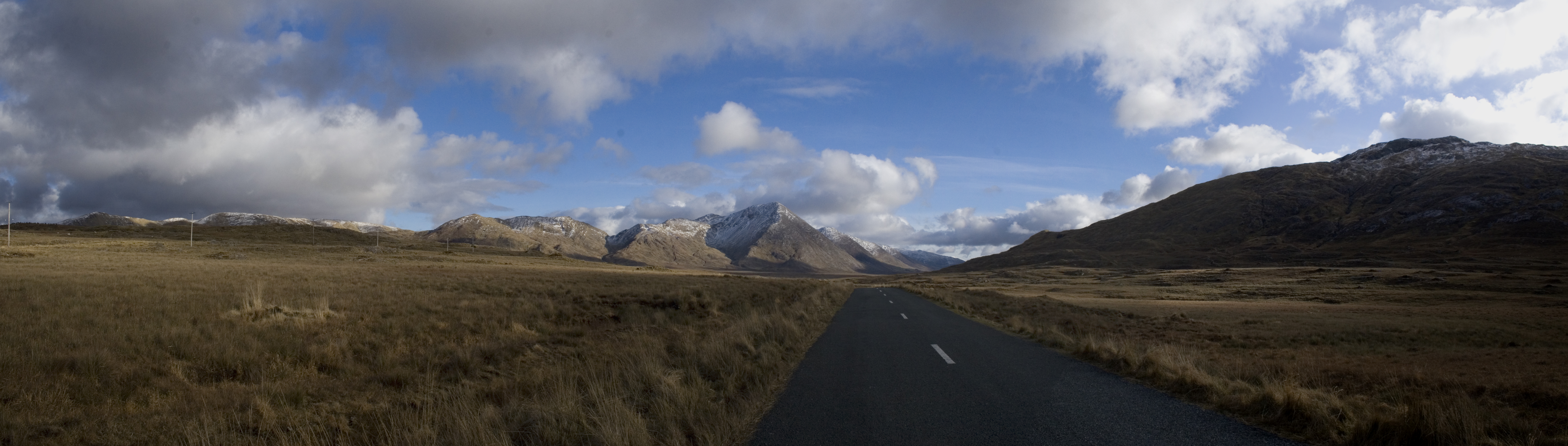 Photo taken on R344 road in Connemara National Park